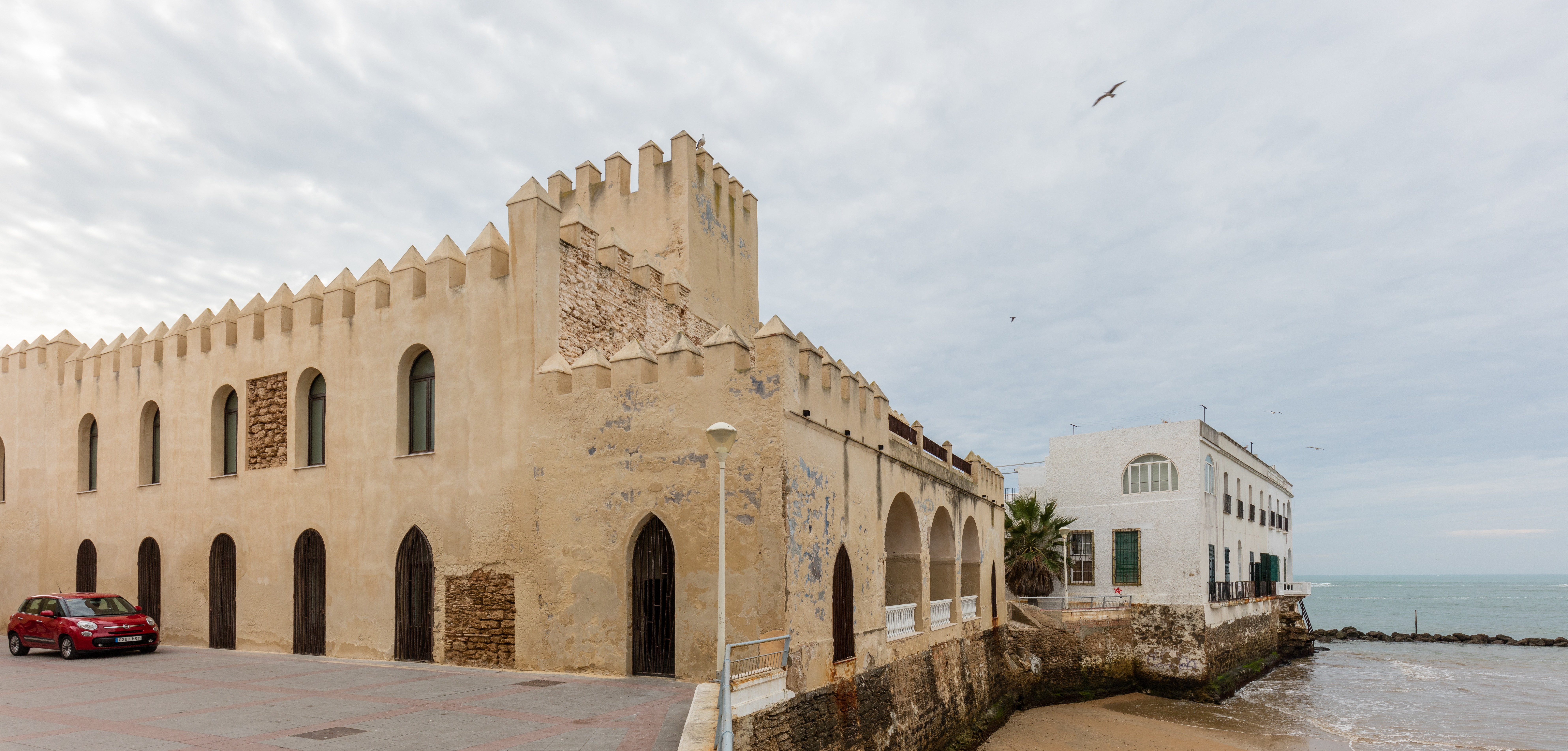 Chipiona castle, Spain